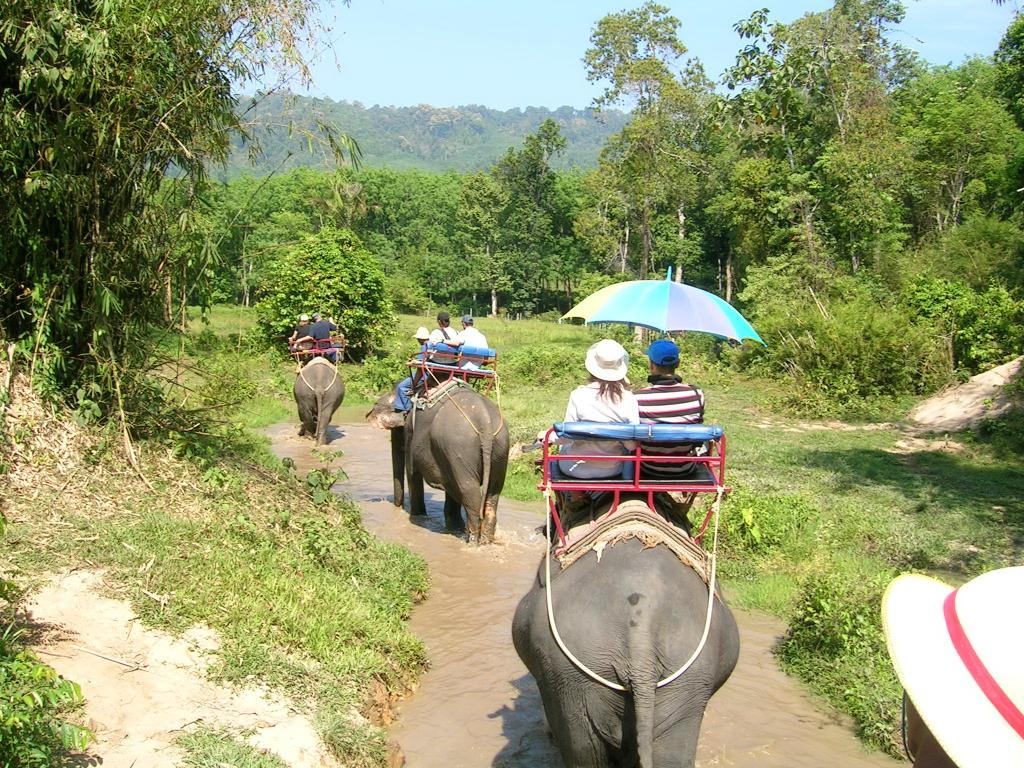 Elephants in Phang Nga. Photo by Brownie13.